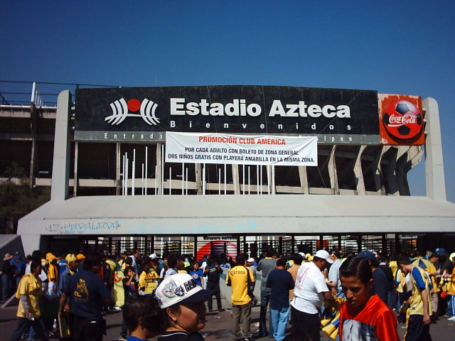 Azteca stadium in Mexico City